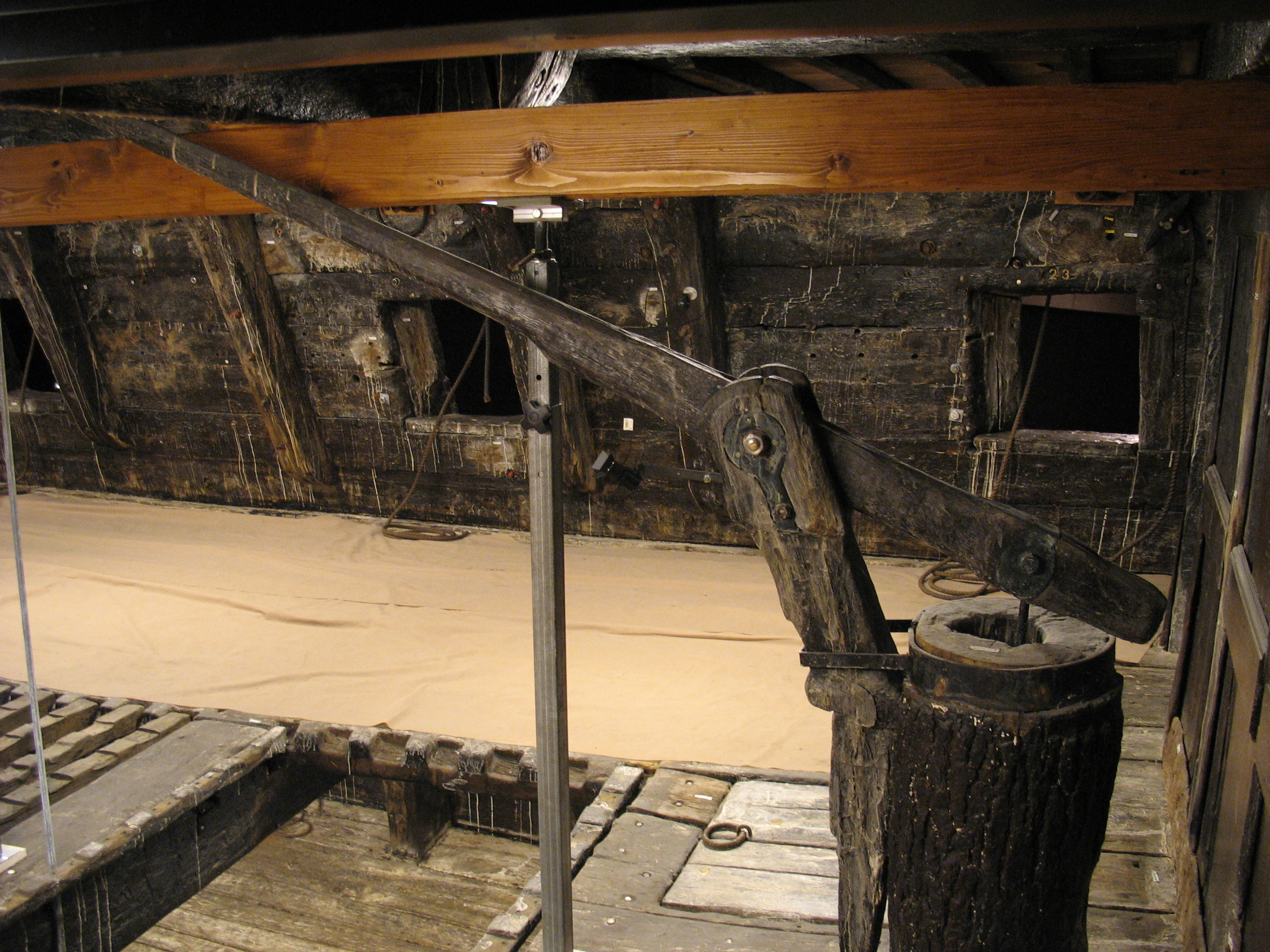 The aft bilge pump of the warship Vasa, displayed in the Vasa Museum in Stockholm, Sweden. Picture taken inside the ship on the upper gun deck looking toward starboard.